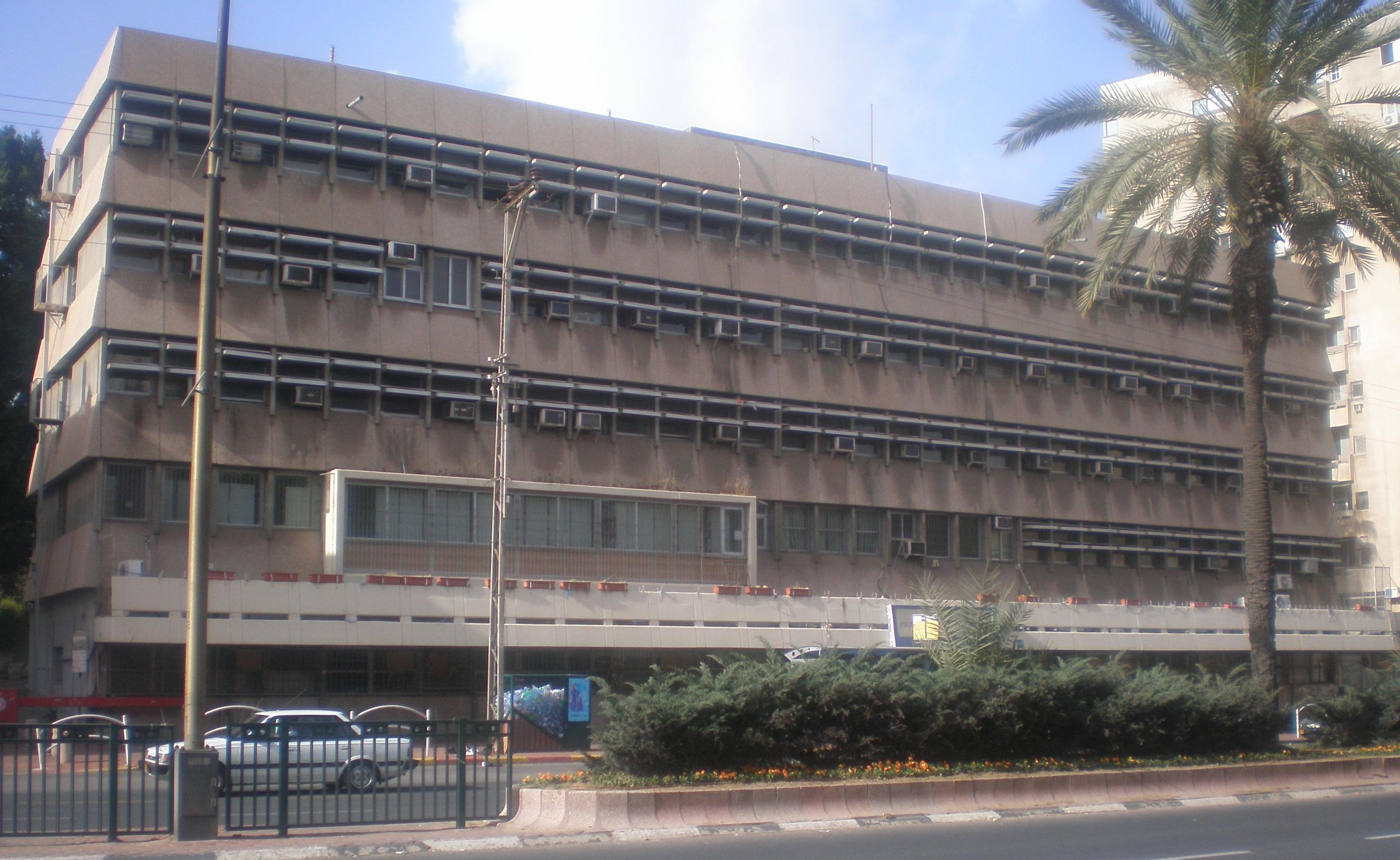 Office of Pkid Shuma Gush Dan, Ramat Gan